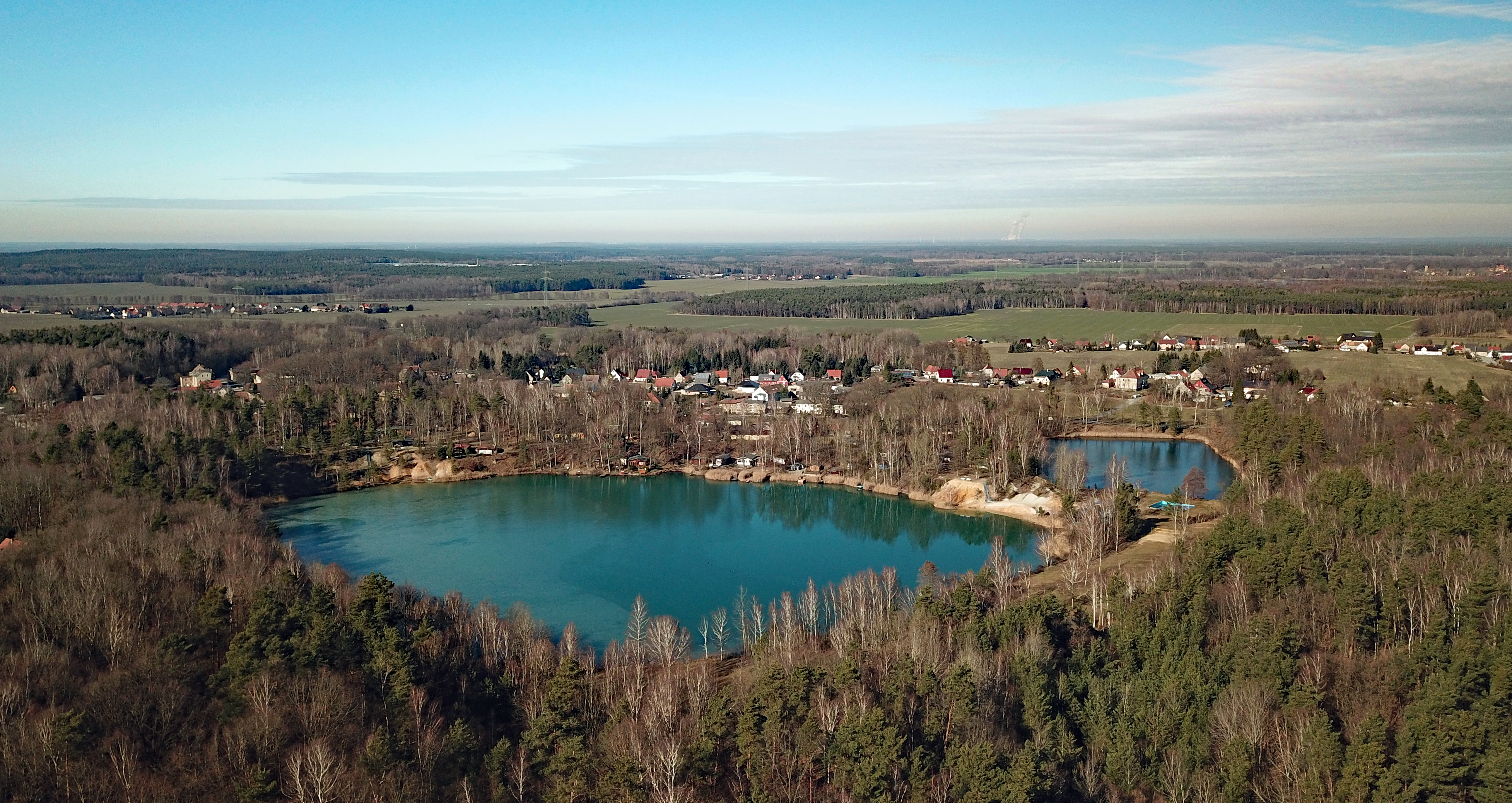 Blaue Adria, Großdubrau, Saxony, Germany Hornjoserbsce: Powětrowy wobraz Módreje Adrije pola Chrósta (gmejna Wulka Dubrawa)